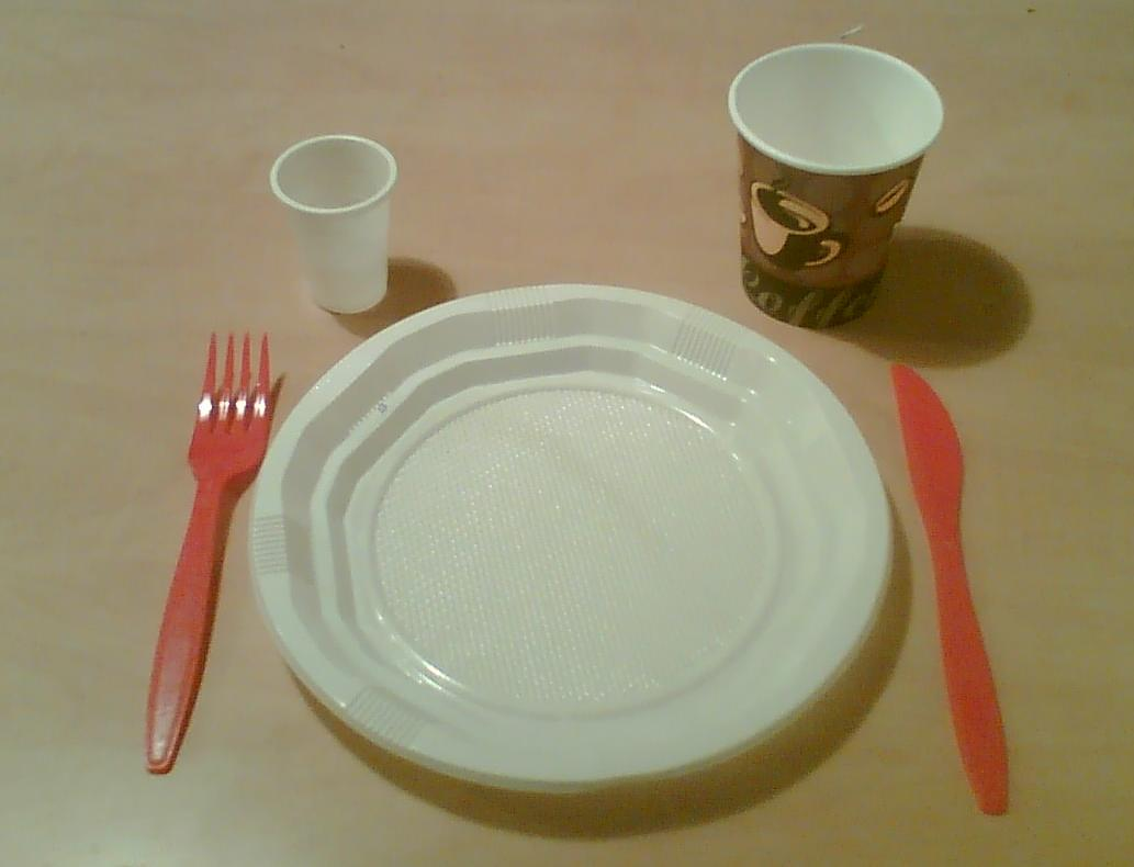 Tableware for one time use